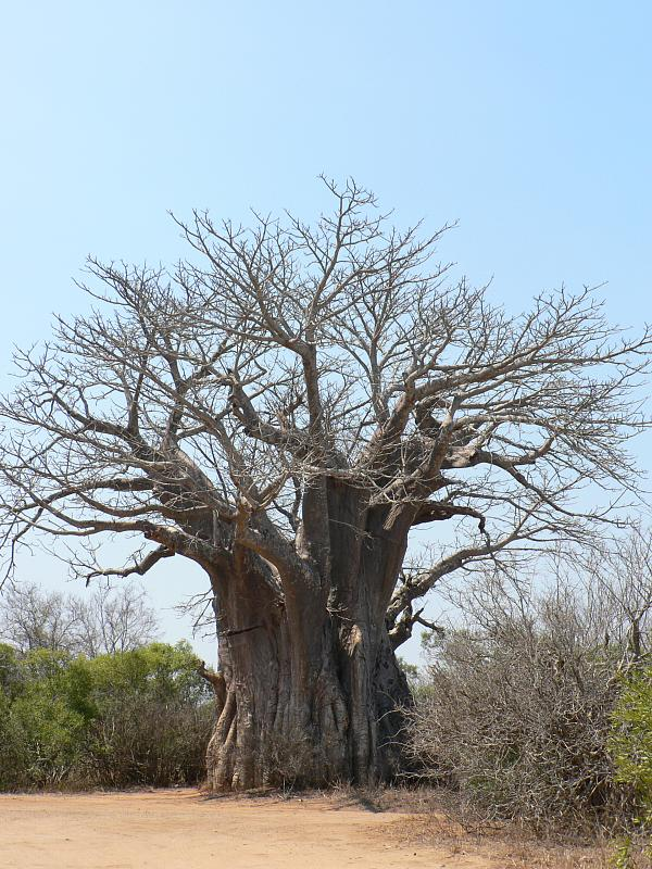 This huge and ancient Baobab tree, between Satara and Skukuza camps. Would have liked to get a pic of Jax or myself underneath as to give an idea of how large this tree is, but wasn't sure about the safety, but if I had to estimate, the trunk would probably be about 12-13 meters wide. Wiki Baobab - Wiki says this particular tree has a diameter of around 15meters A shot of a Baobab taken 2 years later, in the wet summer season can be seen here.